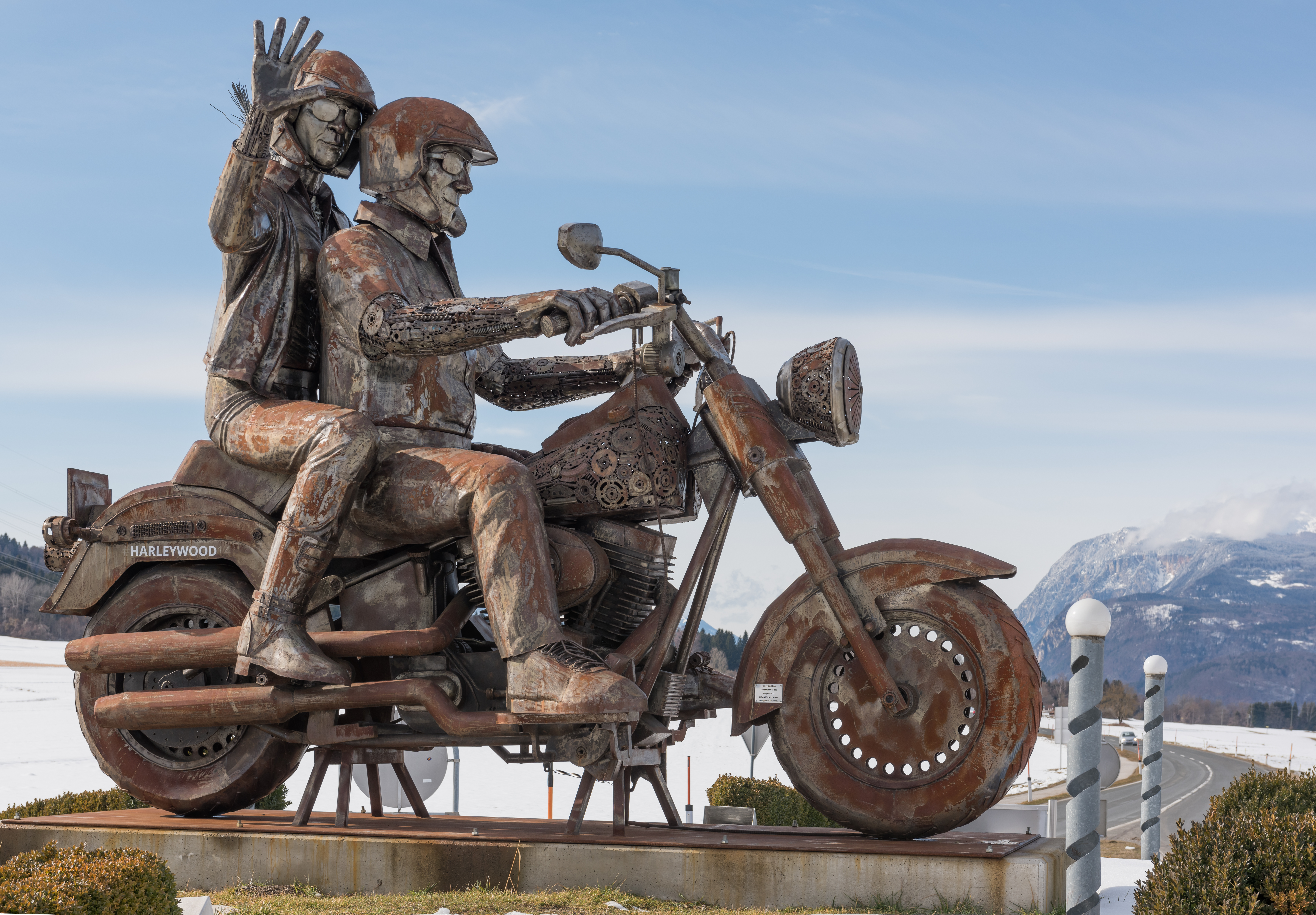 Steel monument of a biking couple on a Harley-Davidson Fat Bob at a roundabout on Rosental Strasse in Faak am See, market town Finkenstein on the Lake Faak, district Villach Land, Carinthia, Austria, EU